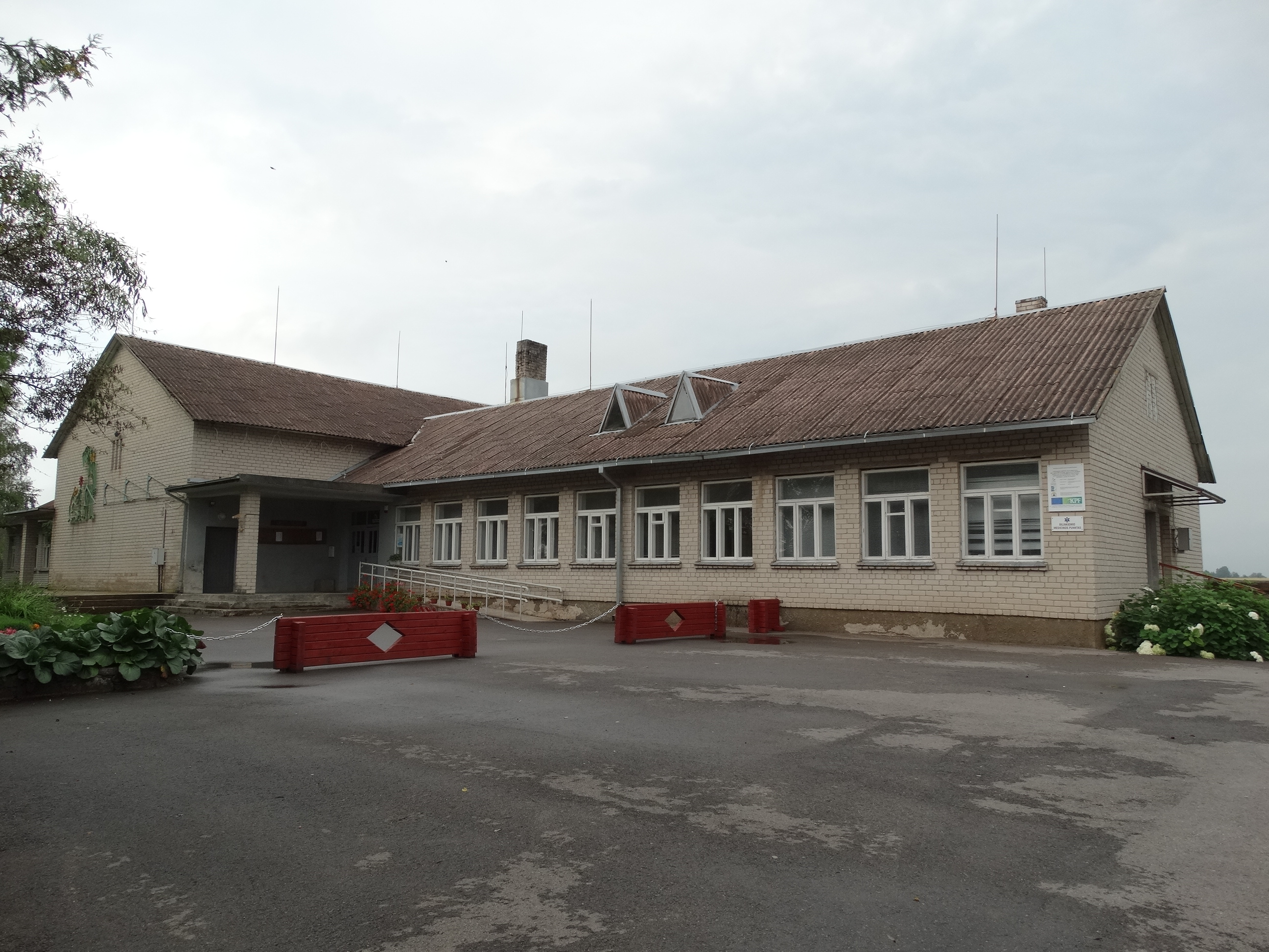 Biliakiemis, former school, Lithuania